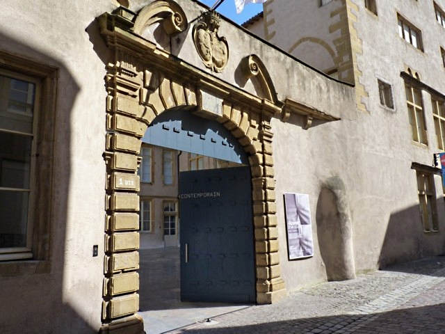 View of the Saint-Livier Hôtel, home to the Regional Contemporary Art Fund of Lorraine in Metz.